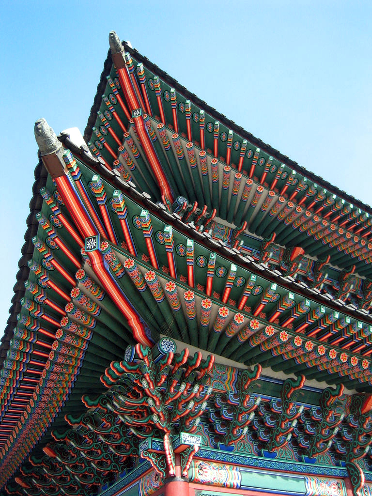 Gyeongbok Palace Seoul Korea